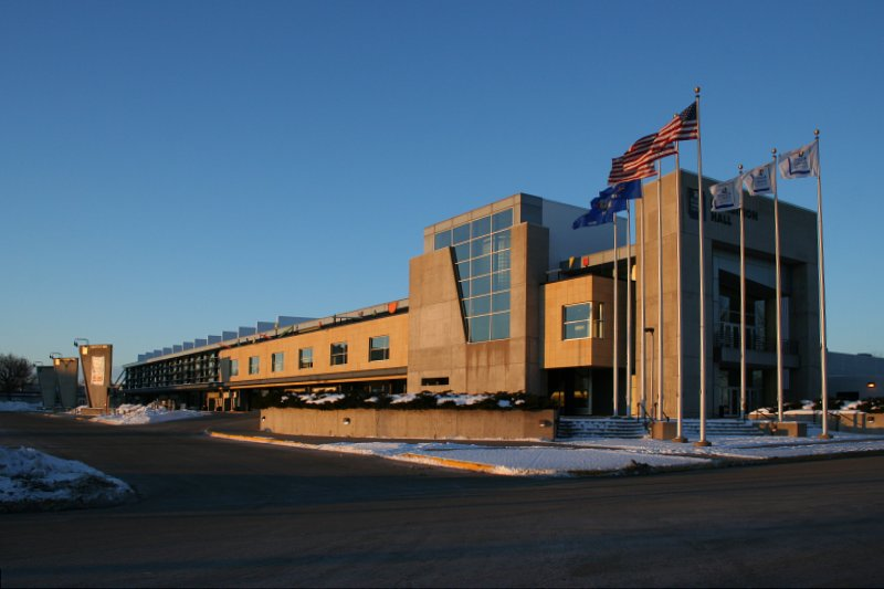 The exterior of the Exposition Hall of Alliant Energy Center in Madison, shortly after dawn on February 18, 2007.